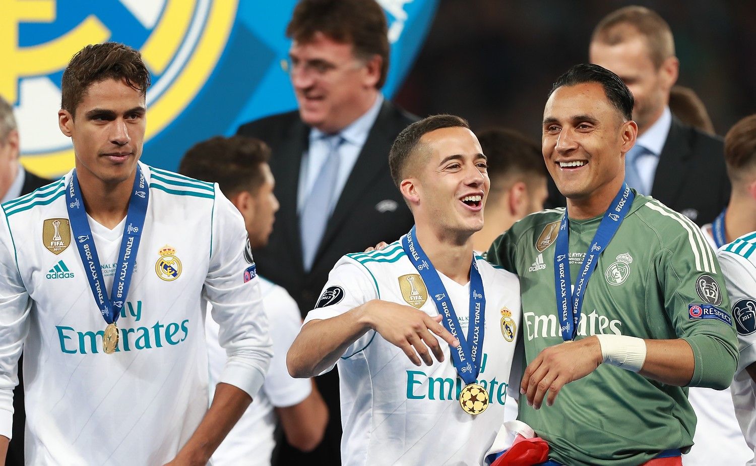 Keylor Navas, Raphaël Varane, Lucas Vázquez